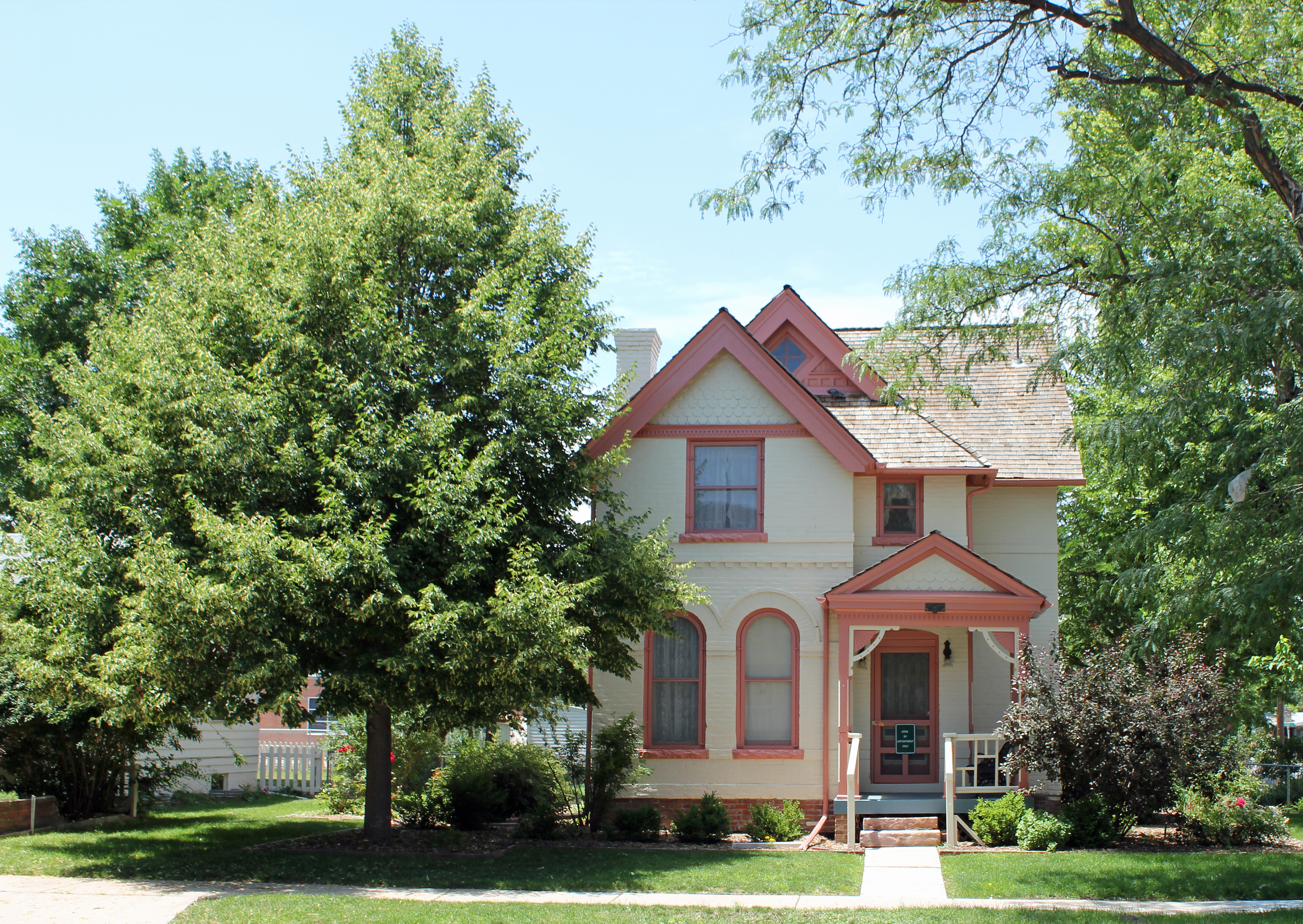 The Blanche A. Wilson House, located at 1671 Galena Street in Aurora, Colorado. The house is listed on the National Register of Historic Places. The house is now called the Aurora Centennial House.